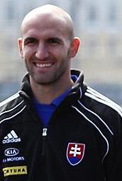 Róbert Vittek